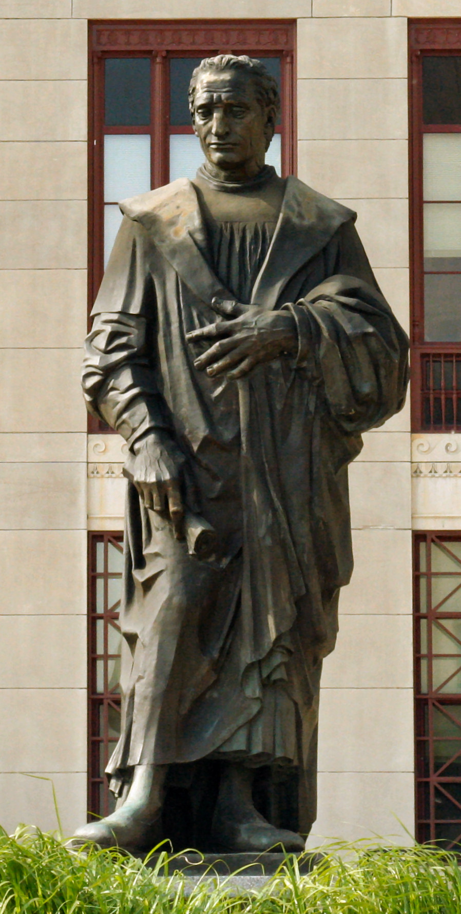 Statue of Christopher Columbus in Columbus, Ohio next to City Hall.